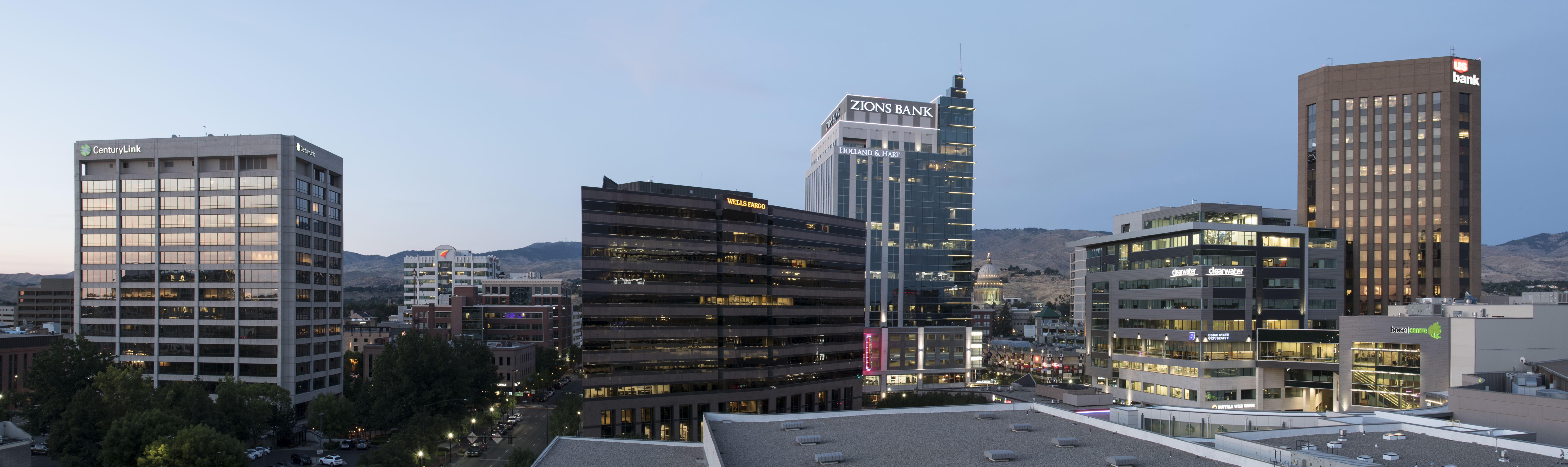 A panorama of downtown Boise, Idaho